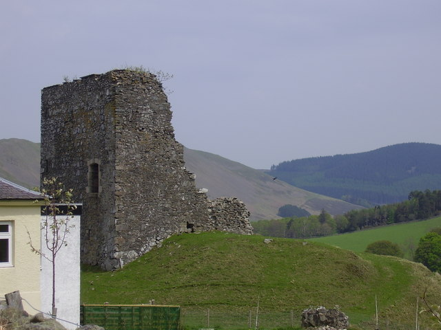 Ruined Tower at Castlehill One of countless ruined towers in the Borderlands. Evidence of continuous cross border skirmishes over the centuries